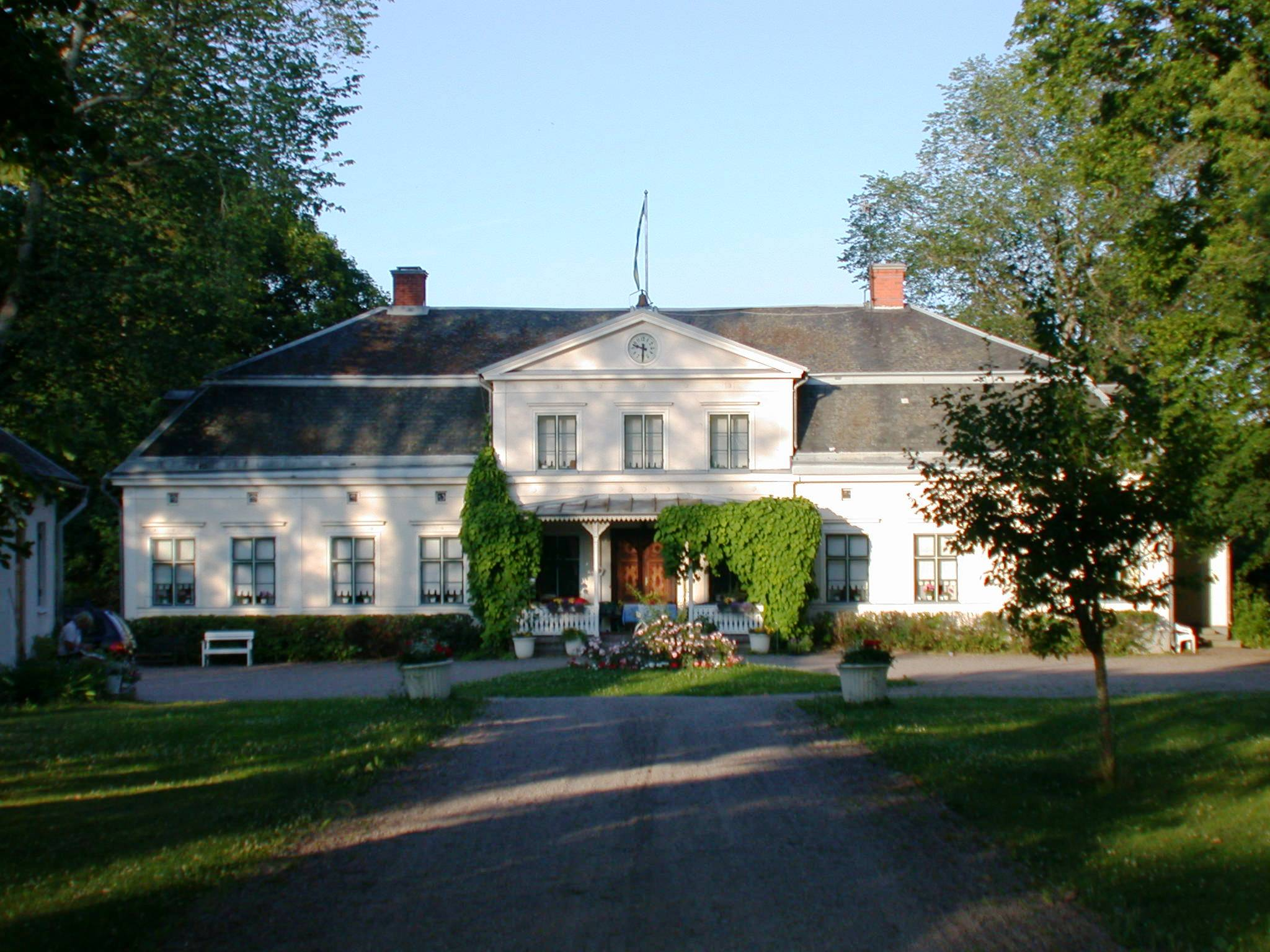 Brunneby manor, Motala, Sweden. Photo by Riggwelter, July 12, 2006.